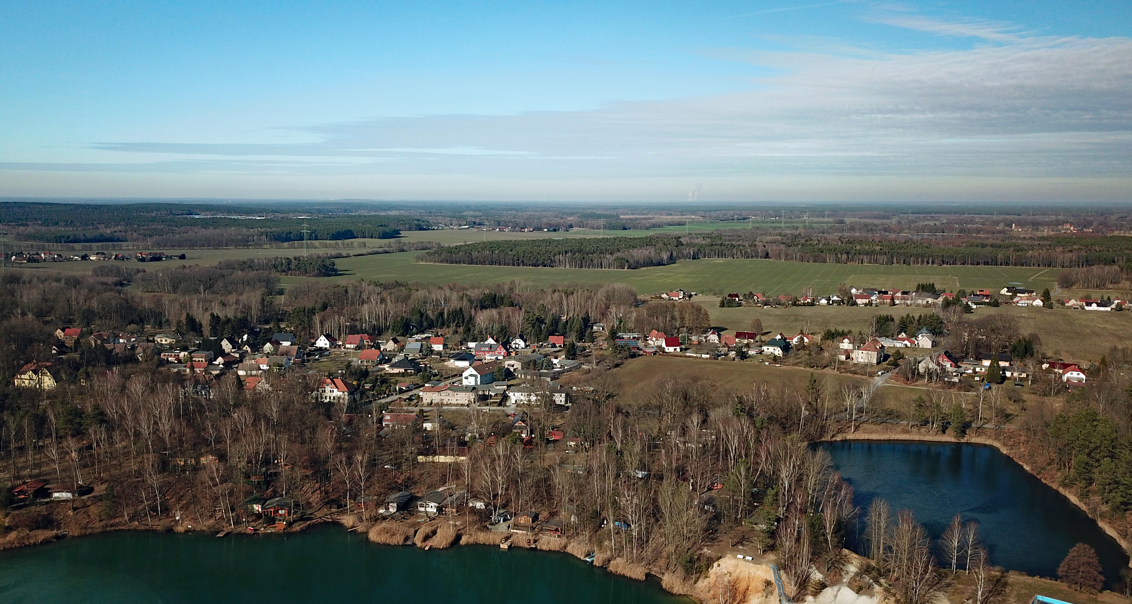 Crosta, Großdubrau, Saxony, Germany Hornjoserbsce: Powětrowy wobraz Chrósta